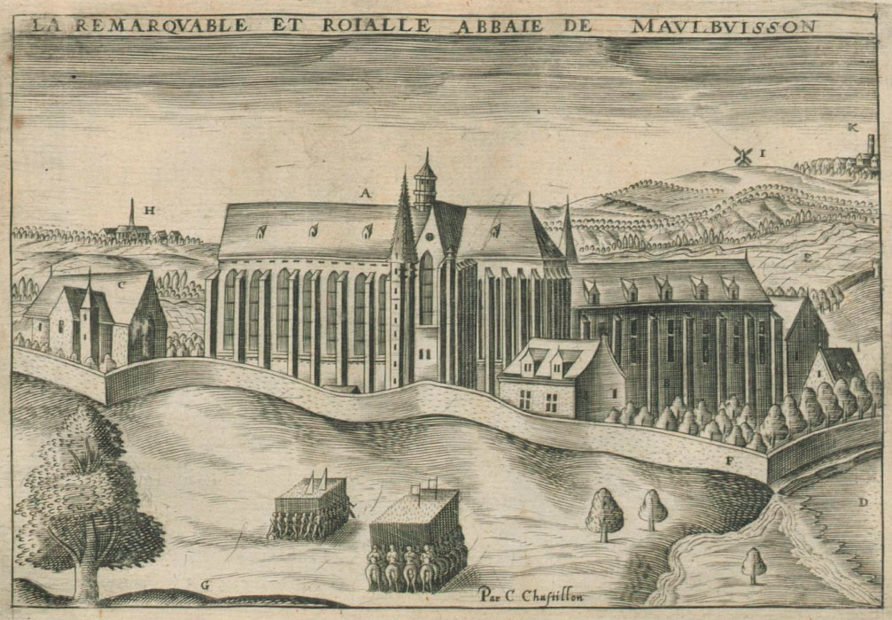 Maubuisson Abbey in the beggining of 17th century